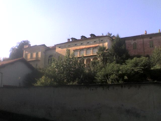 Ricca’s Palace in Bricherasio (TO), Piedmont, Italy